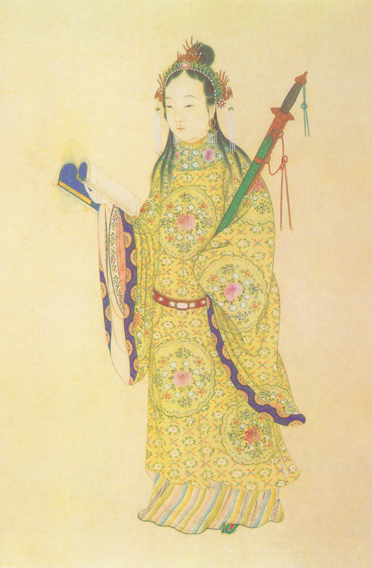 Qin Liangyu (1574–1648), courtesy name Zhensu, was a Chinese female general best known for defending the Ming dynasty from attacks by the Manchu-led Later Jin dynasty in the 17th century.